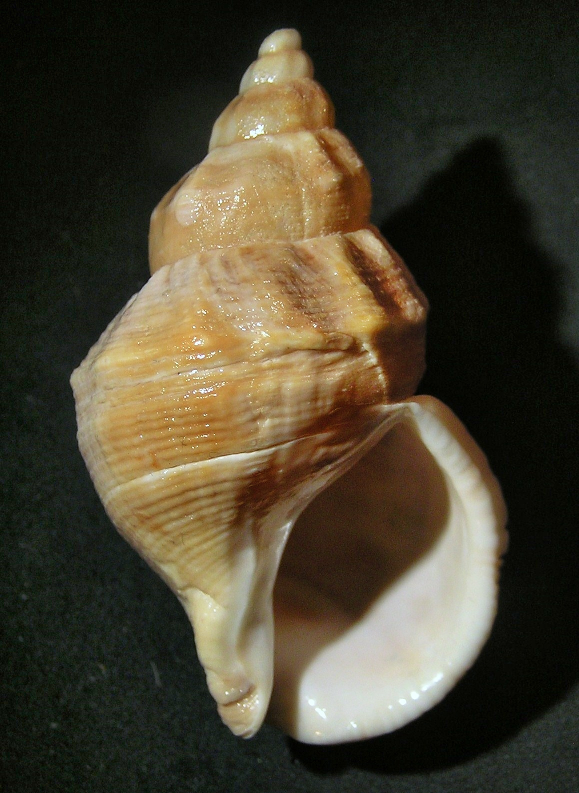 Buccinum glaciale Linnaeus, 1761 , Alaska